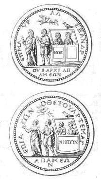 The "Apamean medal", Hellenistic medal disputed iconography, detail of an engraving from Archæologia.